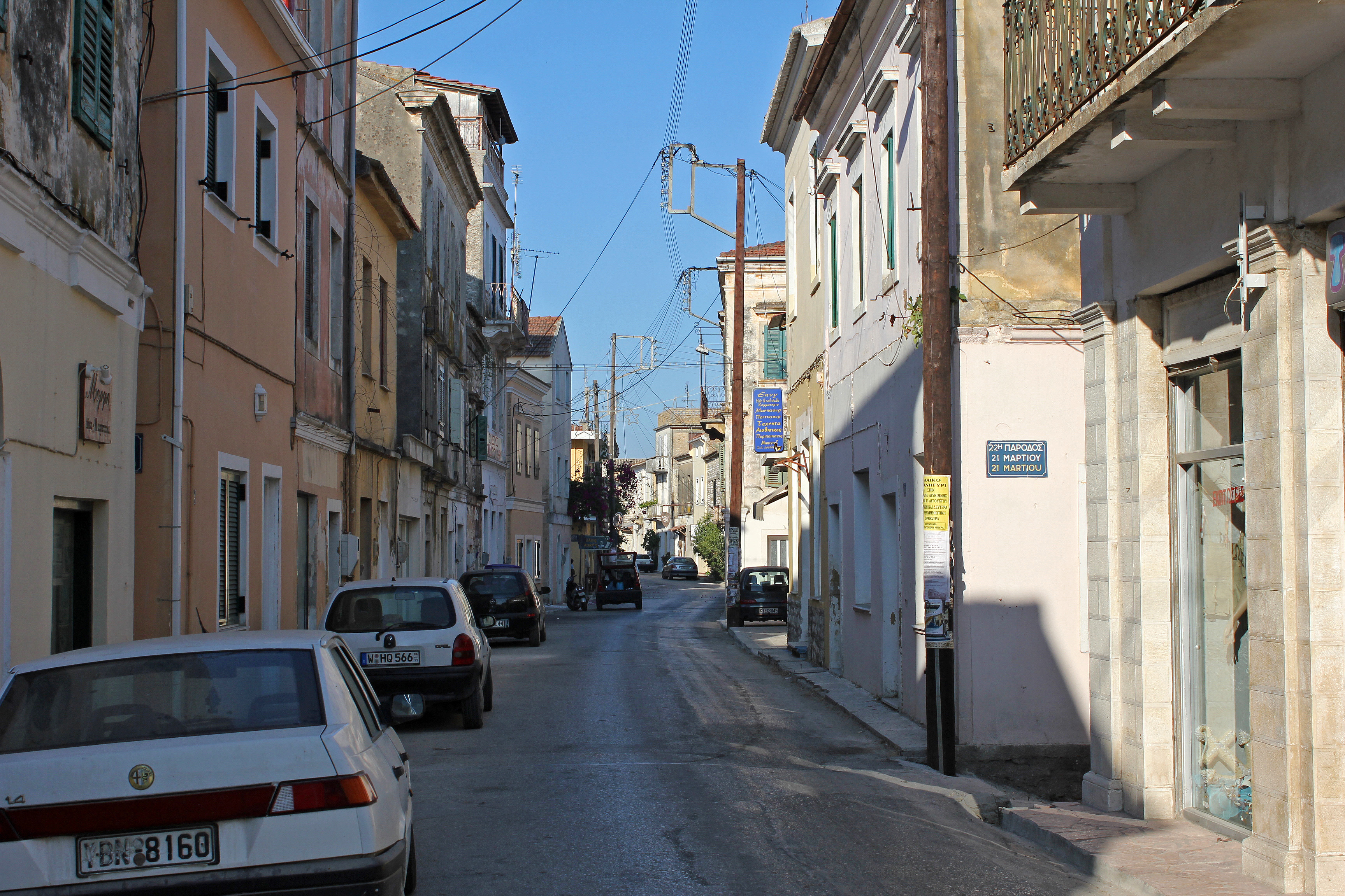 A narrow street in Lefkimmi, Corfu, Greece.